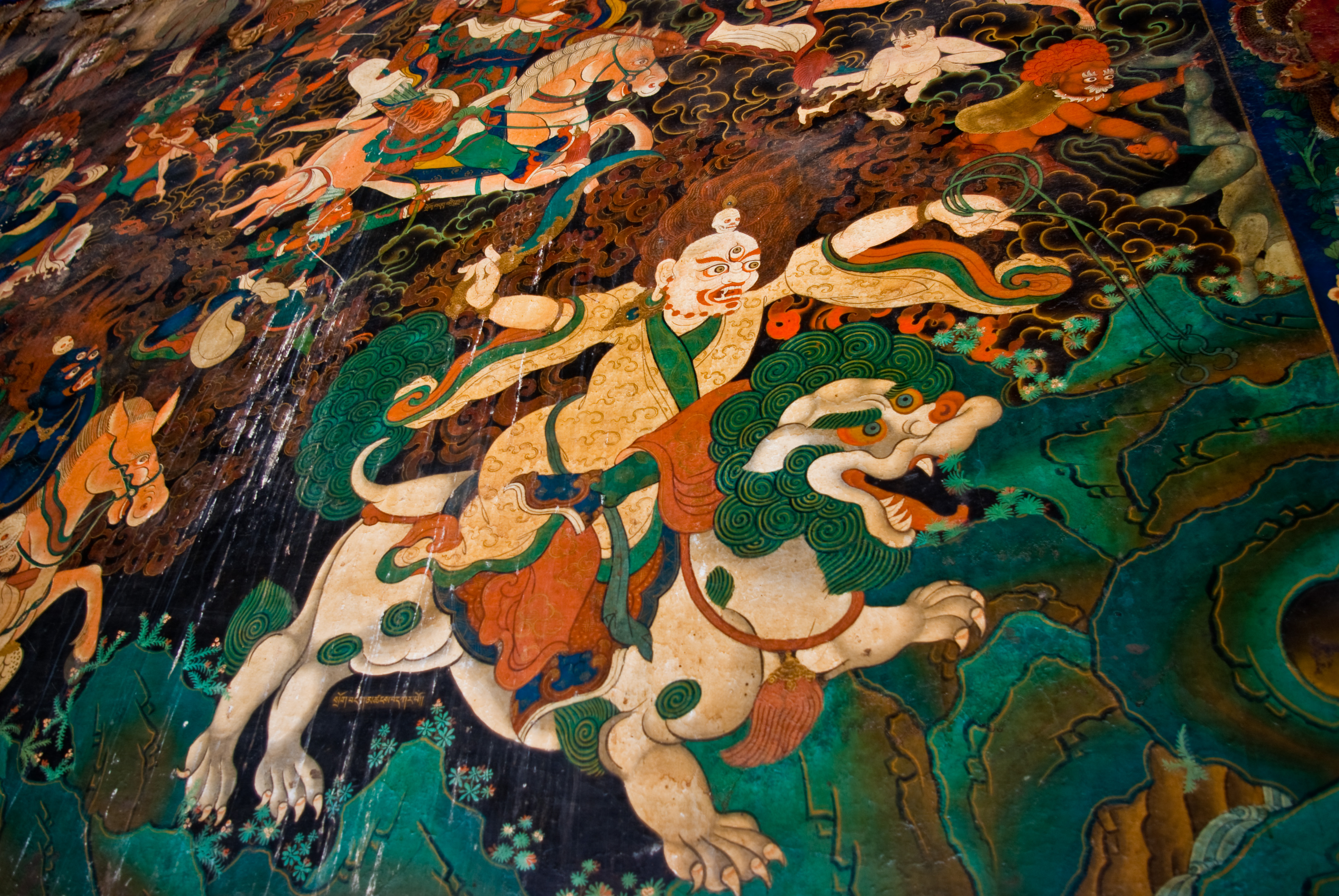 Nechung